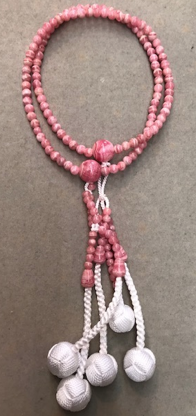 Inca Rose stone from Peru Juzu prayer beads